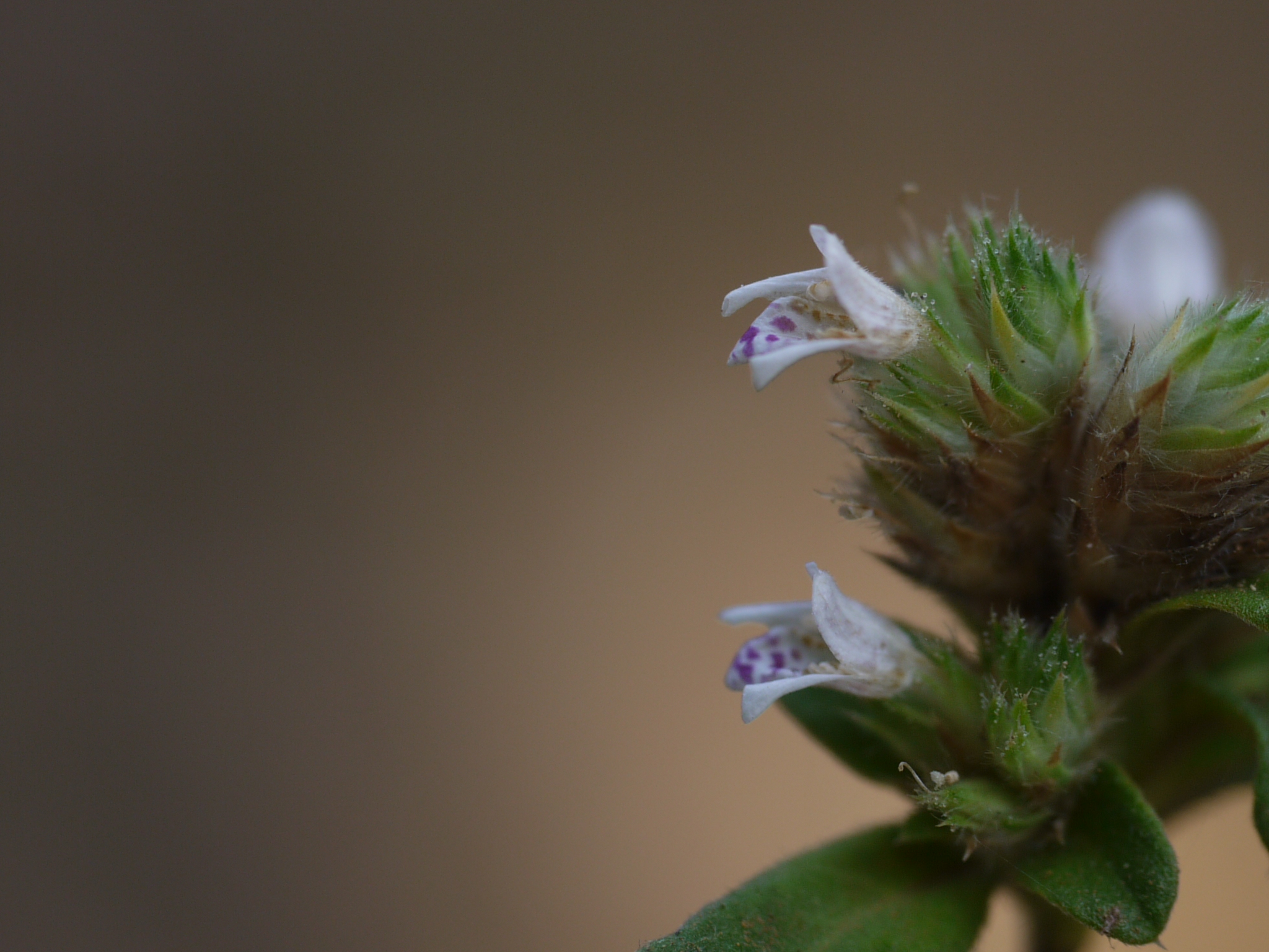 Lepidagathis incurva